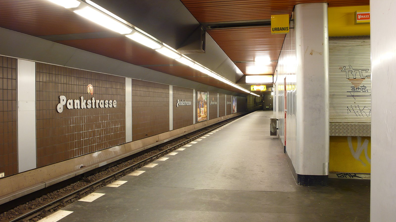 Pankstr sub